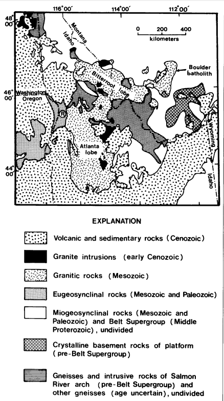 Idaho Batholith and Salmon River Arch